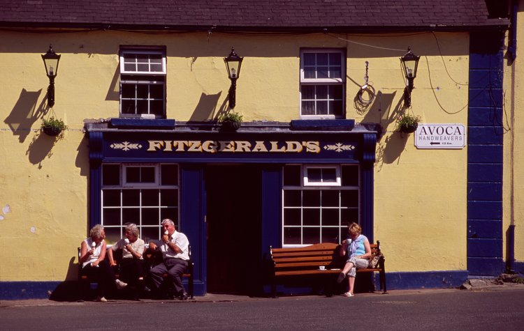 A pub in Avoca, County Wicklow, Ireland. This was used as a primary exterior set in the BBC television series Ballykissangel and it retains the name used in the show.